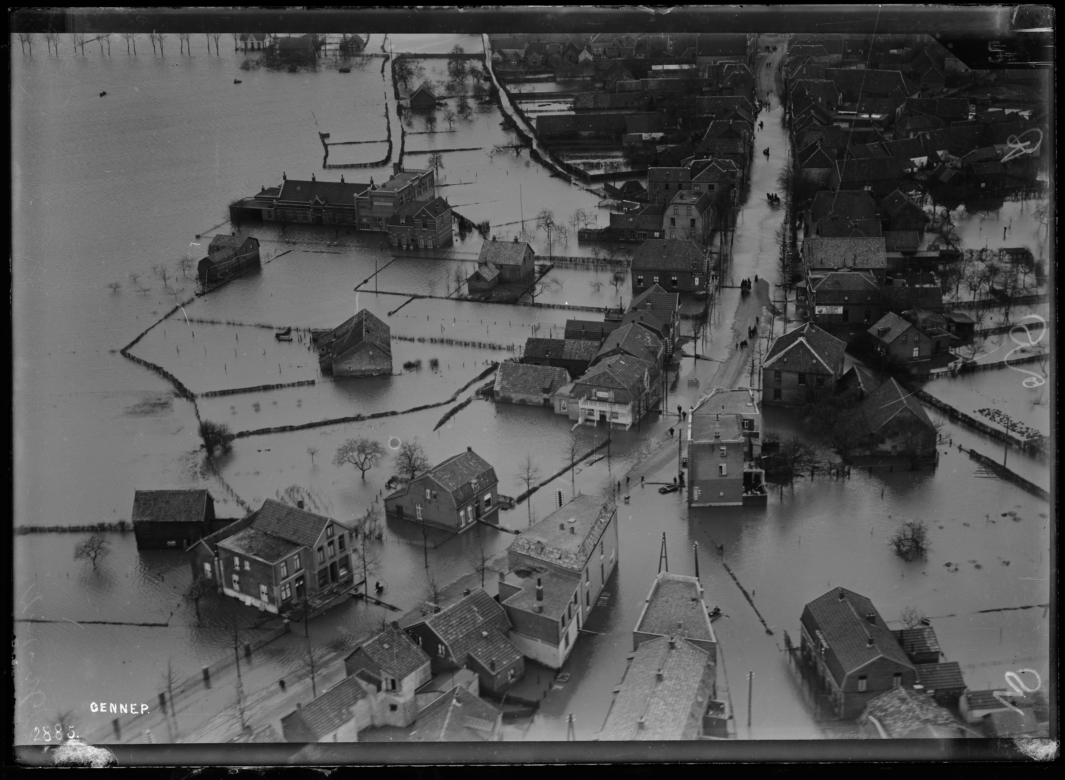 Aerial photograph of Gennep, The Netherlands. Inundation of 1926.